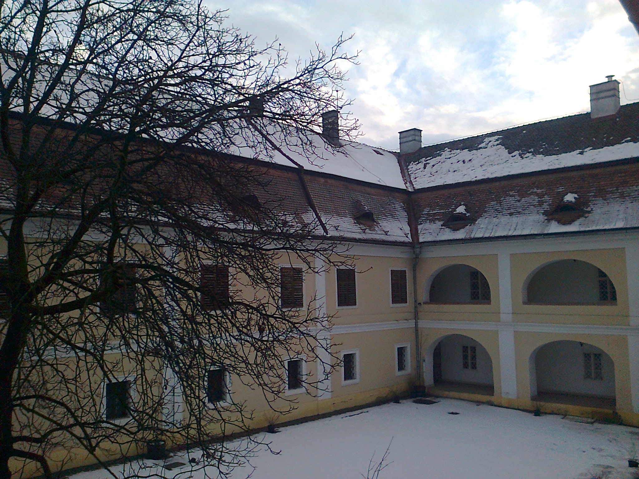 Teleki Library in Marosvásárhely/Tg. Mures, Romania